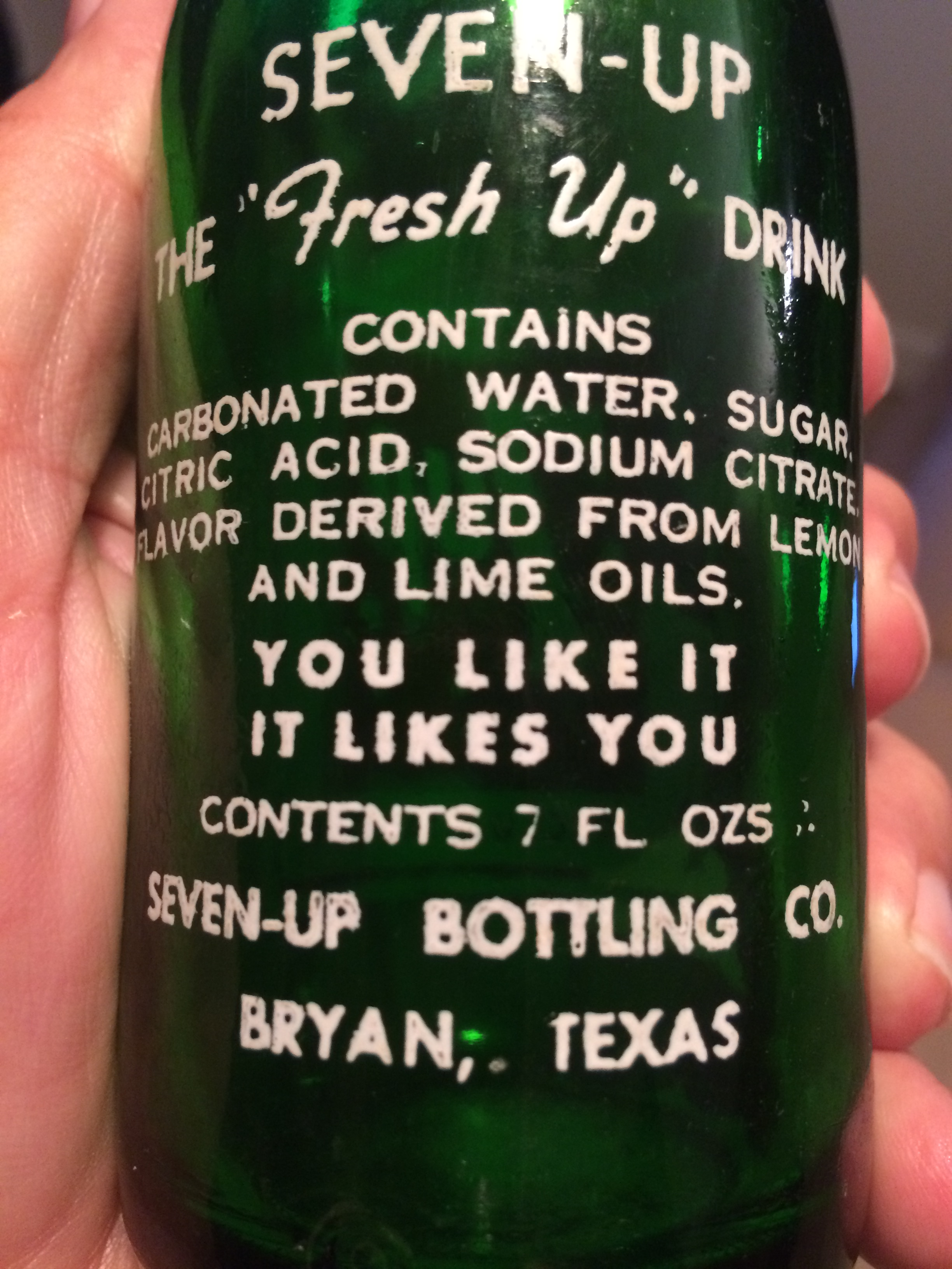 actual 7 Up bottle showing it came in 7 ounces